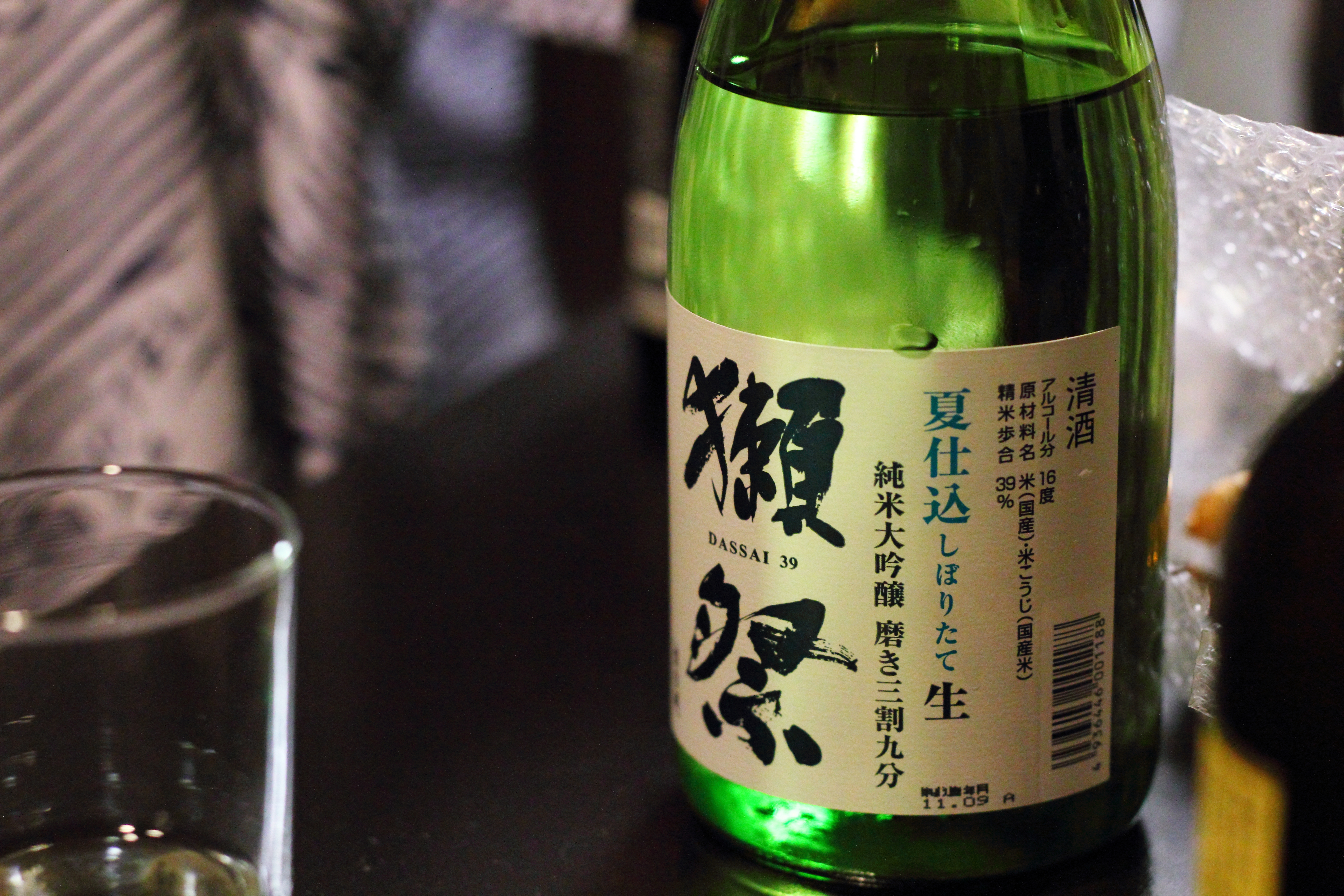 Dassai (brand of sake, made by Asahishuzo)